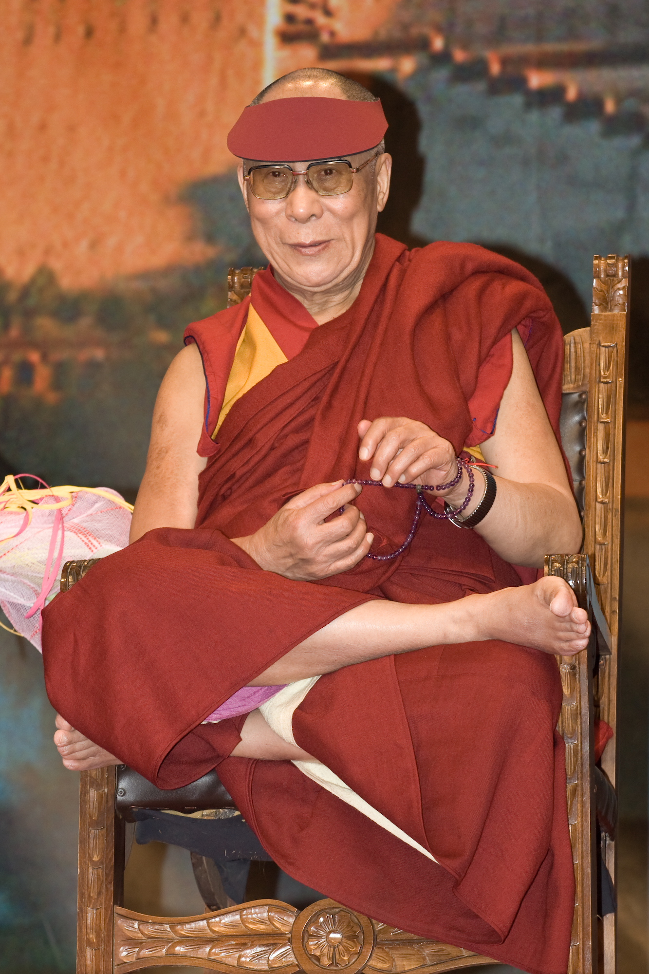 Tenzin Gyatso, the fourteenth and current Dalai Lama, is the leader of the exiled Tibetan government in India. He was awarded the Nobel Peace Prize in 1989. Photographed during his visit in Cologno Monzese MI, Italy, on december 8th, 2007.